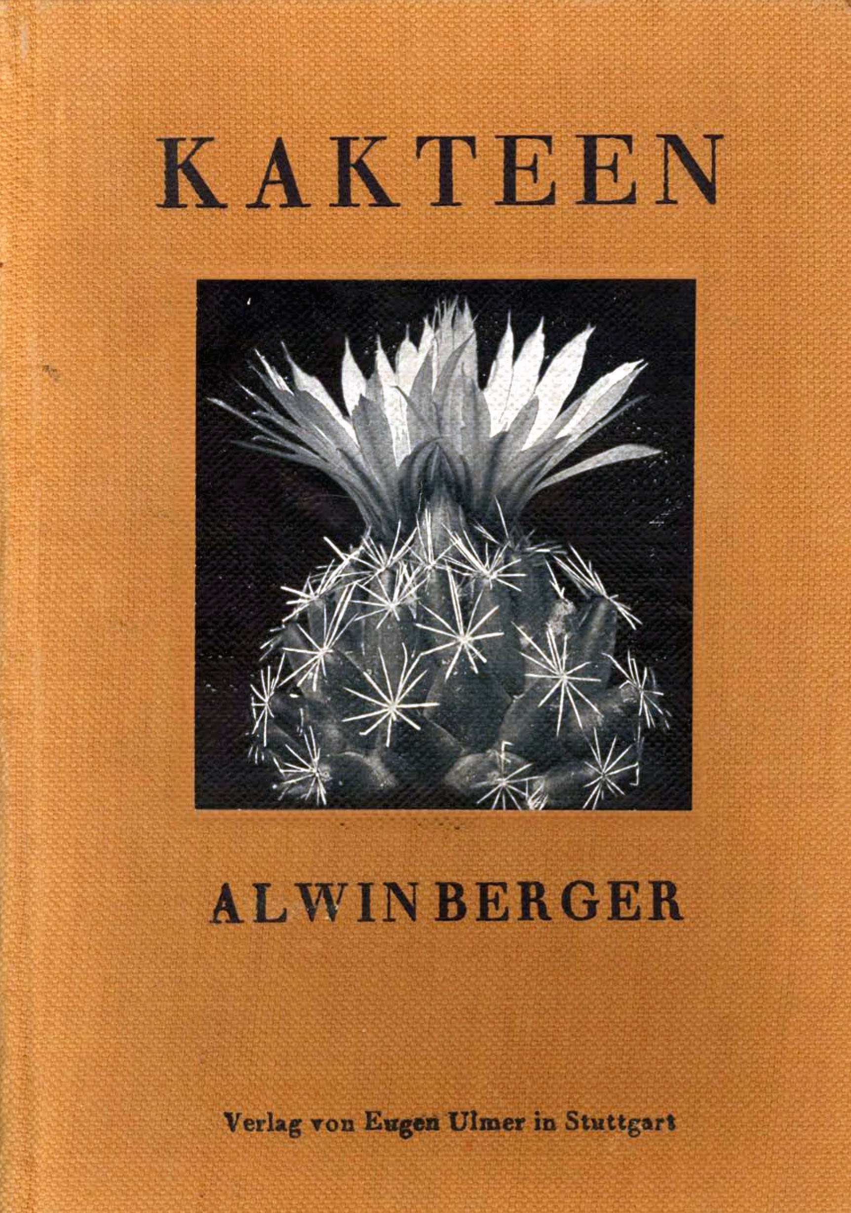 Cover of Alwin Berger's Kakteen